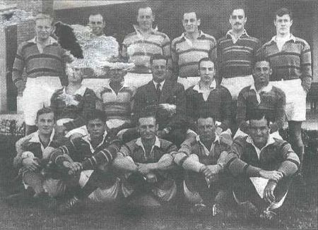 The rugby union third division of Lomas Athletic Club, champions of 1949. The players are: (Back row): G. Bridger, T. Craig, G. Down, P. Middleton, G. Adams, J. Vibart; (Middle row): R. Vibart, D. Torry, P. Huxley (captain), J. Eddie, N. Craig; (Bottom row): A. Dodds, A. Carou, S. Bridger, R. Mackay and E. Sproat.